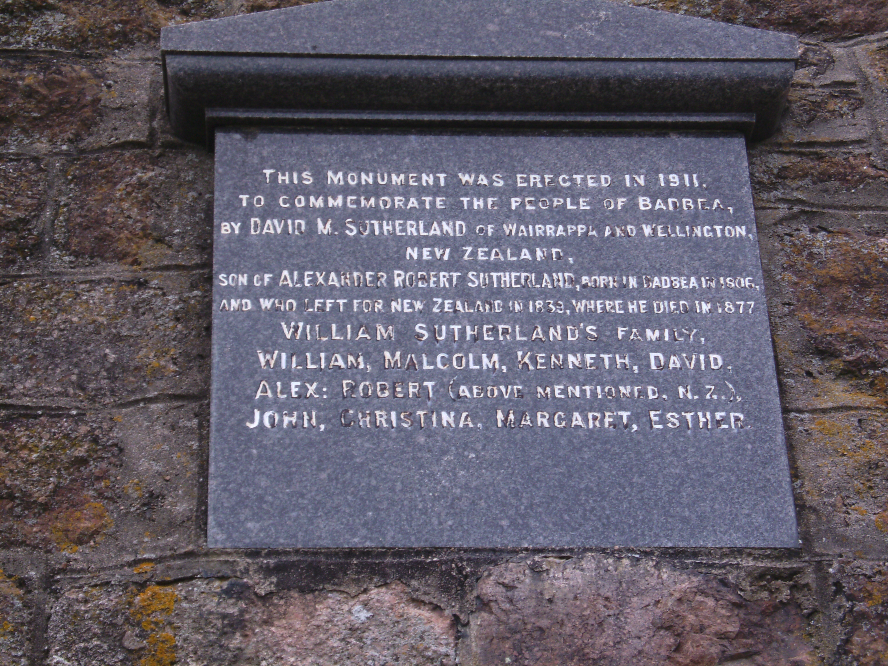 Photo of Badbea clearance village 1911 monument inscription